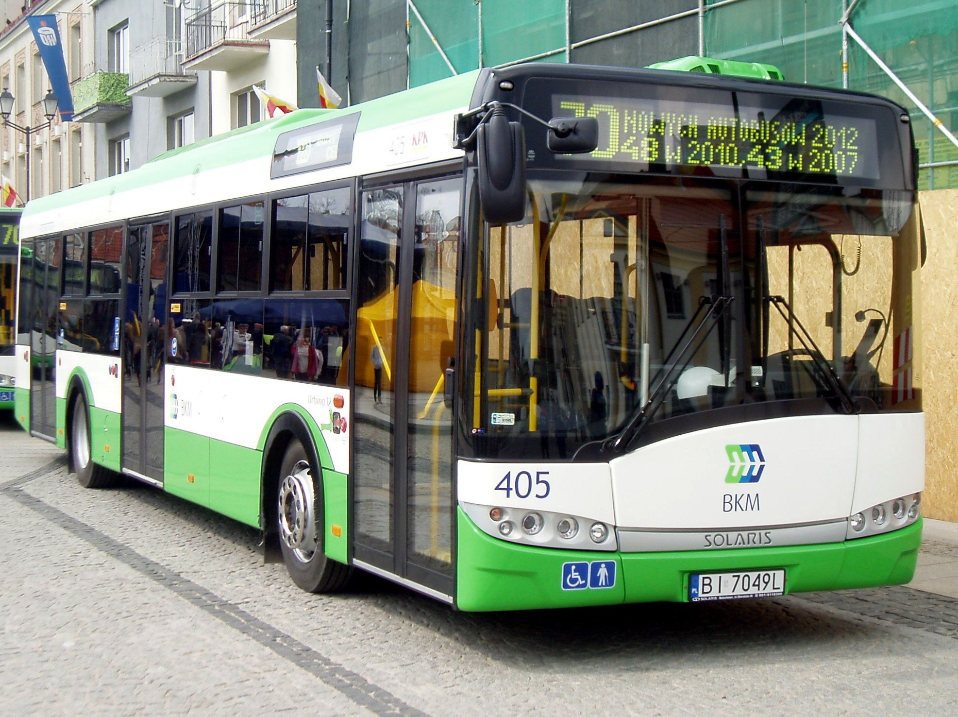 Solaris Urbino 12 bus (#405, reg. BI 7049L) with climatisation in Białystok, Poland. Built 2012, KPK Białystok operator.